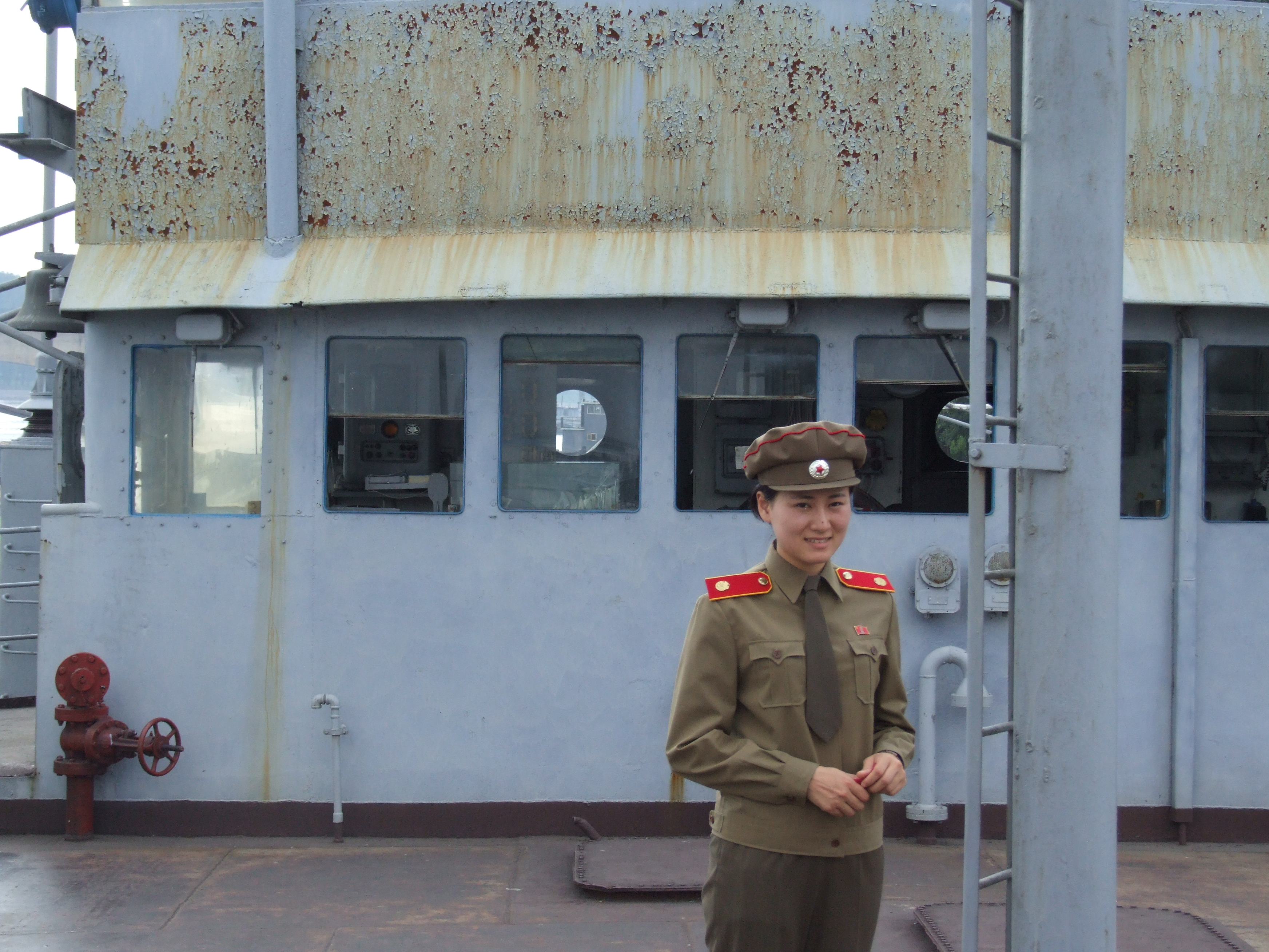 USS Pueblo (AGER-2) in Pyongyang, North Korea